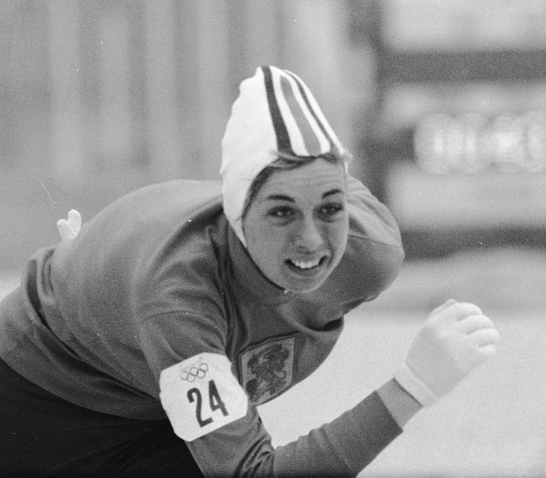 Carry Geijssen, Olympic Games